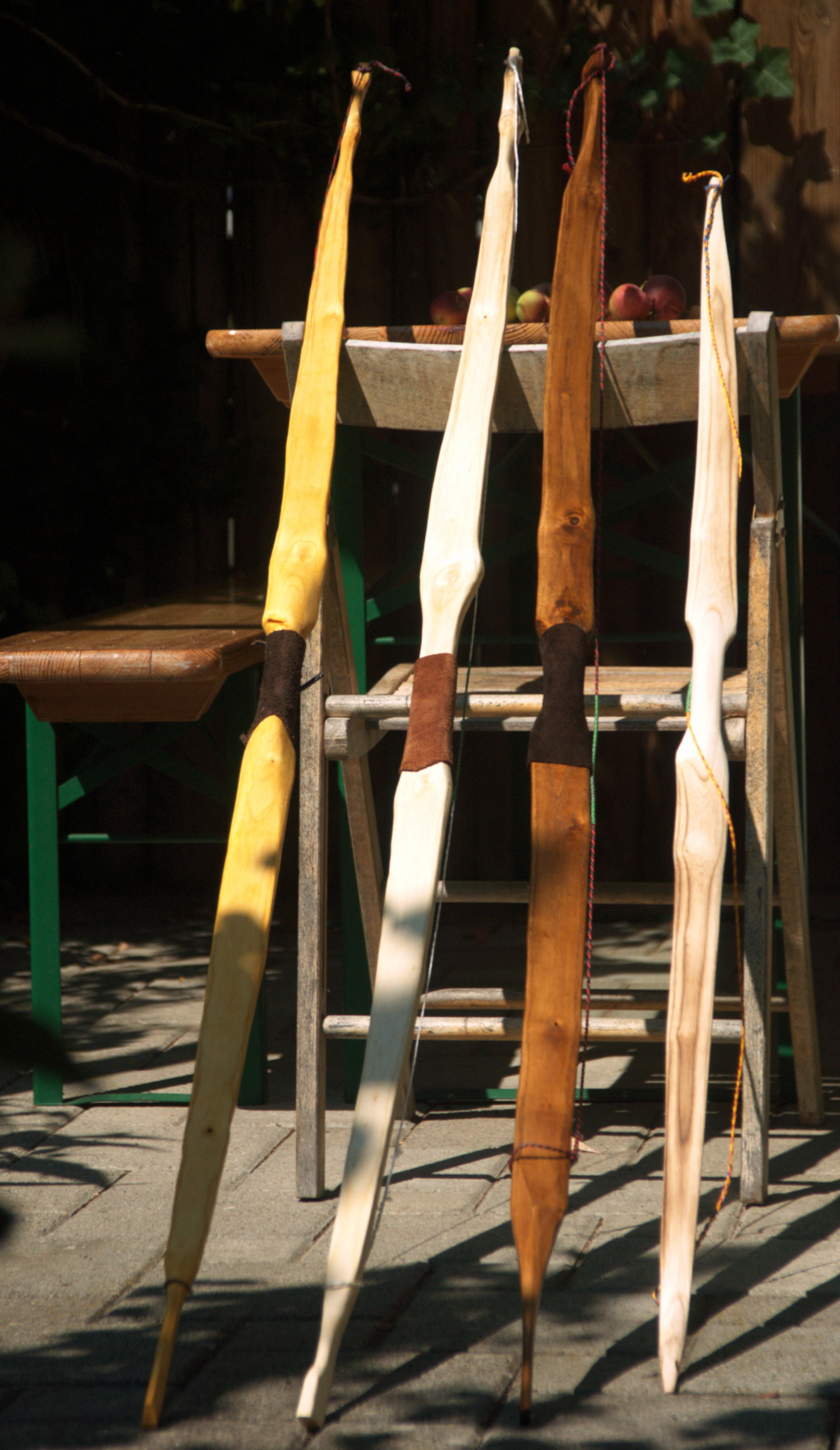 Flatbows made of Ash. Finish from left to right: Linen oil Shellac (transparent) Pickled and with shellac Tempered. Size about 150 cm; The one on the right is smaller (child bow).